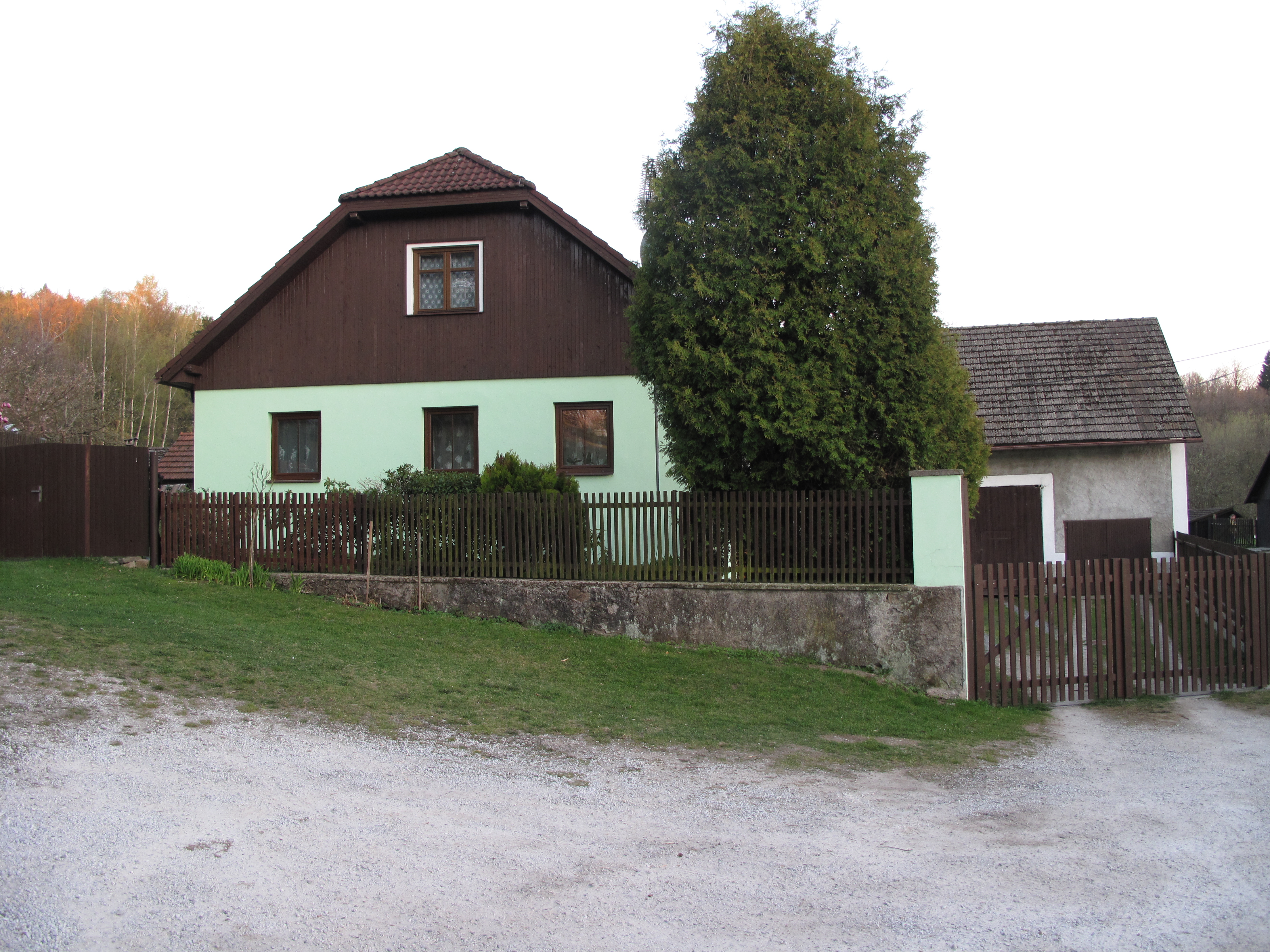 House in Setěkovy.